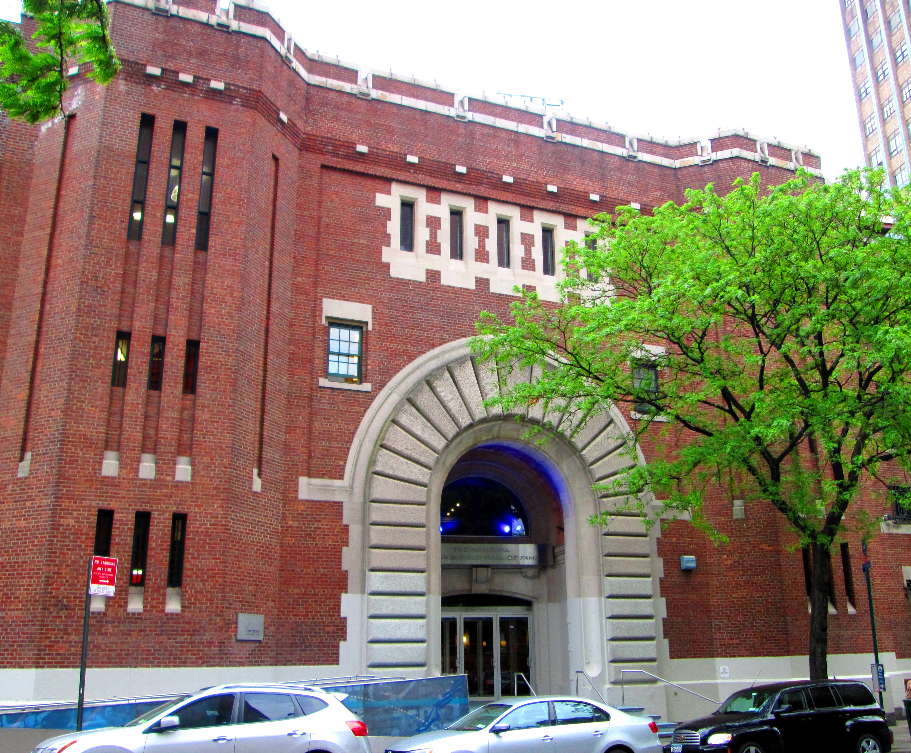 The Fort Washington Armory is located at 241 Fort Washington Avenue (Manhattan) between West 168th and 169th Streets in the Washington Heights neighborhood of Manhattan, New York City. It is a brick Classical Revival building with Romanesque Revival elements, such as the entrance archway, and is currently home to the National Track and Field Hall of Fame and other organizations including the Police Athletic League of New York City.